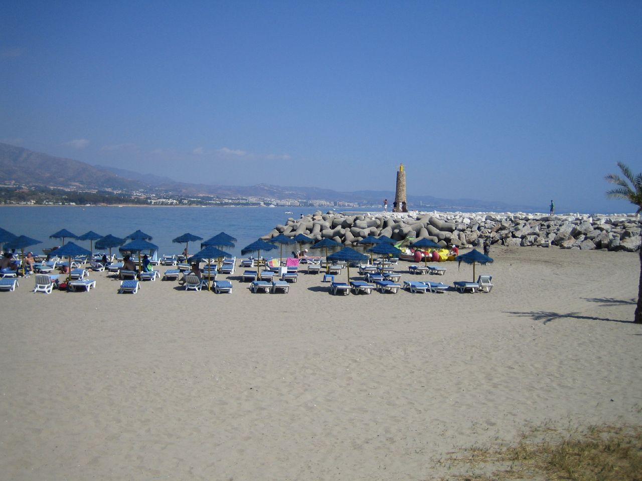 Beach of Puerto Banús in Marbella, province of Málaga, Spain